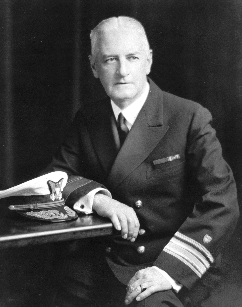 Official portrait of Admiral Harry G. Hamlet, Commandant of the U.S. Coast Guard, 1932-1936